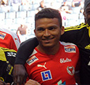 Ismael Silva Lima